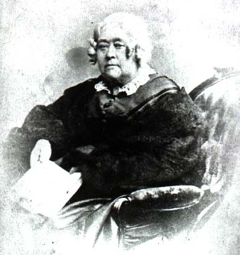 Portrait of Elizabeth Palmer Peabody